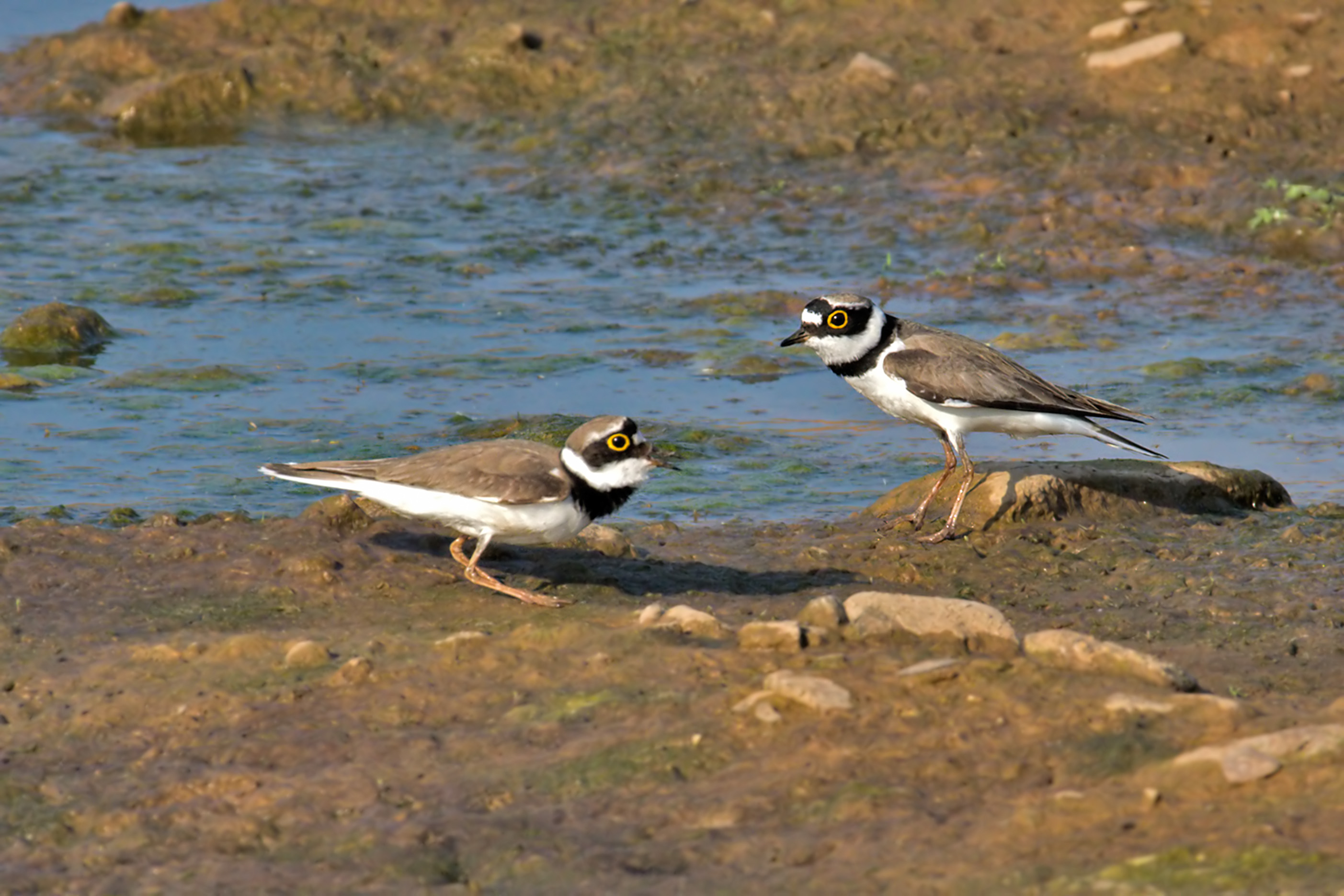 Little Ringed Plover